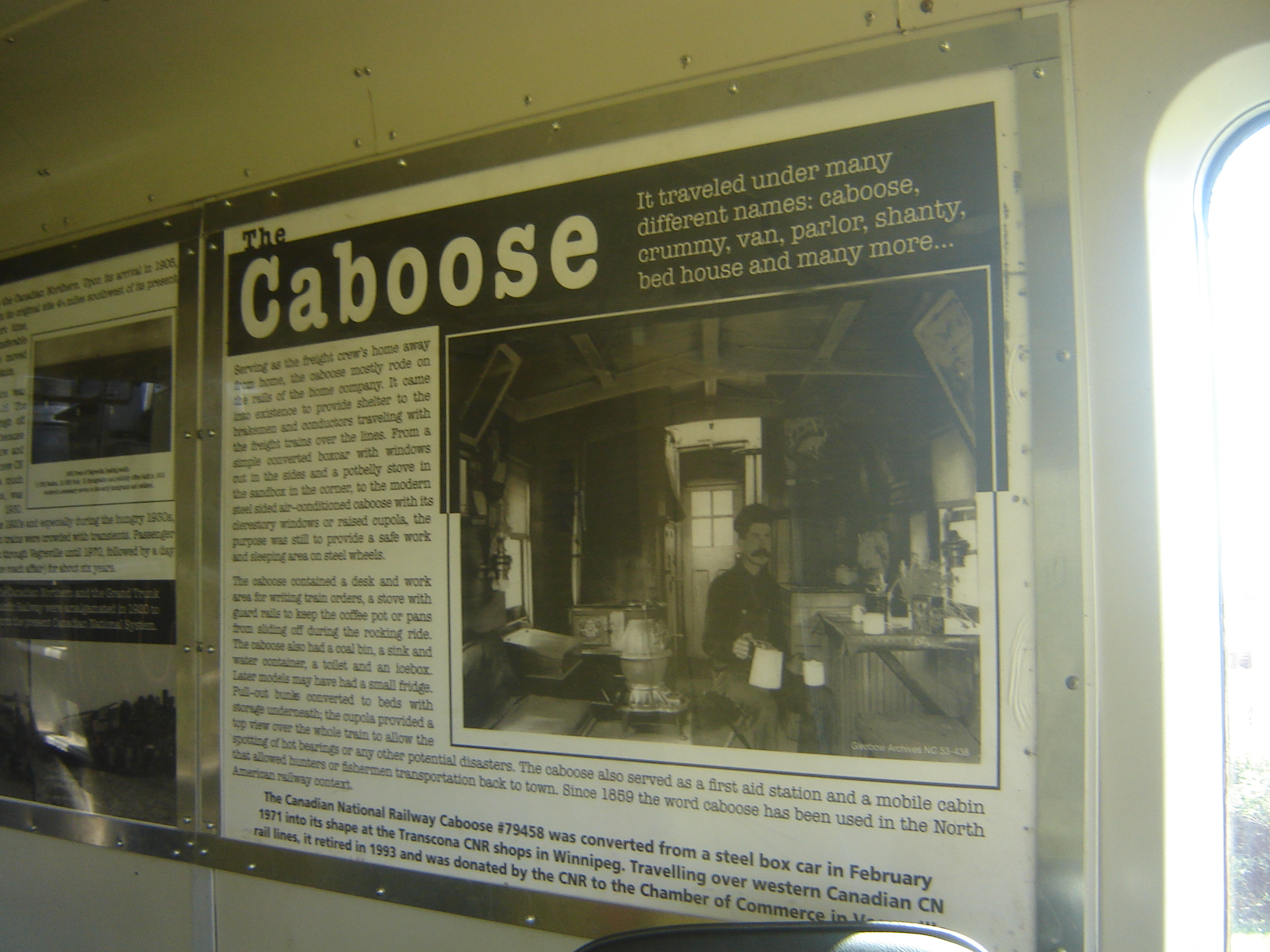 CNR Caboose at Vegreville, Alberta plaque